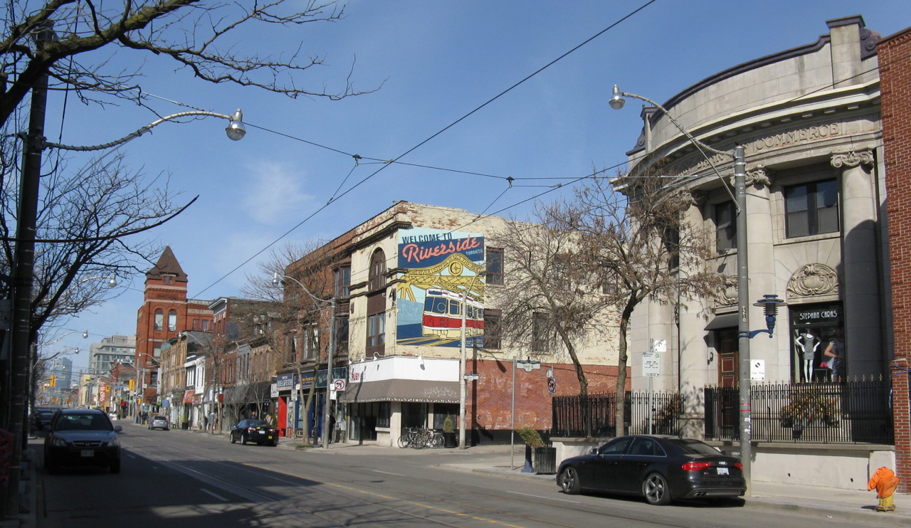 Queen Street East, looking west near Saulter Street. New Broadview House Hotel in the background.